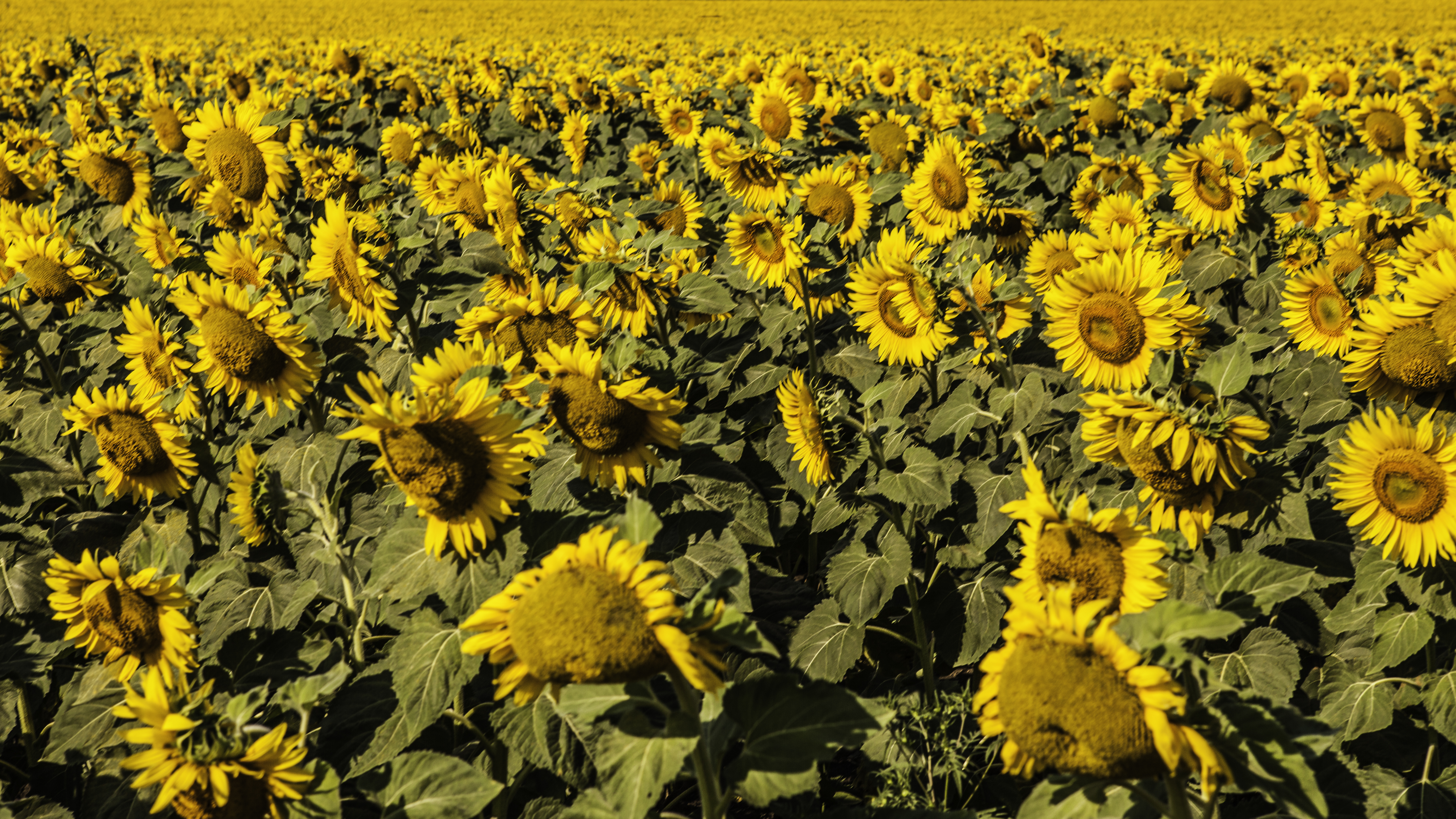 Sunflower photo was took in Ukraine